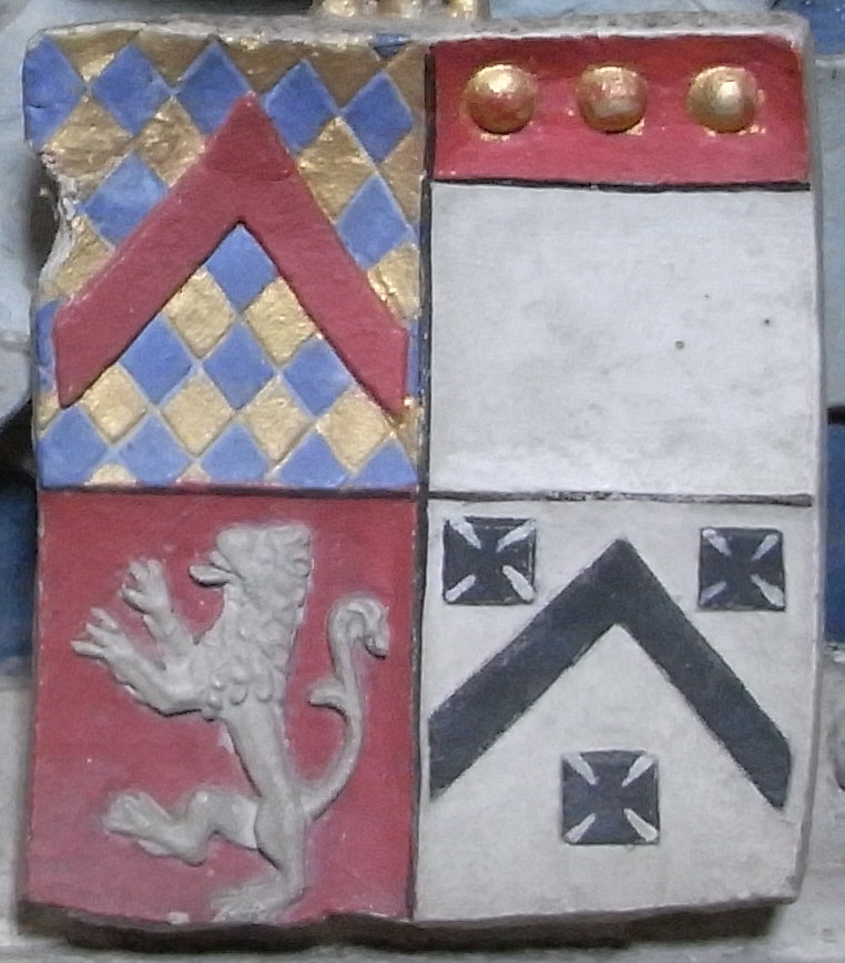 The quartered escutcheon of the Gorges family on the chest-tomb of Sir Edmund Gorges (died 1512) and his wife Lady Anne Howard in All Saints Church, Wraxall, Somerset, England, UK. The escutcheon appears on the base of the tomb and in the 1st quarter is the "Gorges Modern" coat of arms, and in the 2nd quarter the arms of Russell. The "Gorges Modern", the blazon of which is Lozengy or and azure, a chevron gules, was adopted (in lieu of his paternal arms of Russell) by Theobald Russell "de Gorges" following the 1347 judgment Warbelton v. Gorges which determined that he did not have the right to use the Gorges arms blazoned as Lozengy or and azure". That right belonged to John de Warbelton.